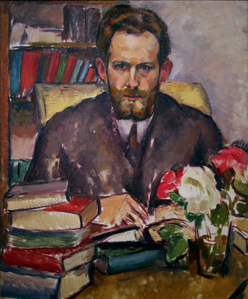 Artist Stanton MacDonald-Wright, 8 Jul 1890 - 22 Aug 1973 Sitter Willard Huntington Wright, 1888 - 11 Apr 1939 Date 1913-1914 Type Painting Medium Oil on canvas Dimensions Stretcher: 92.1 x 76.8 x 2.5cm (36 1/4 x 30 1/4 x 1") Frame: 109.5 x 94 x 6.4cm (43 1/8 x 37 x 2 1/2") Credit Line National Portrait Gallery, Smithsonian Institution; this acquisition was made possible by a generous contribution from the James Smithson Society Object number NPG.86.7 Exhibition Label Born Charlottesville, Virginia Under the alias S. S. Van Dine, Willard Huntington Wright became famous for his detective fiction, beginning with The Benson Murder Case (1926), which sold out in a week. But earlier, he had helped advance new ideas in art, literature, and journalism. As an editor, he transformed Smart Set, a fashionable repository of light stories and verse, into a serious journal, publishing such writers as D. H. Lawrence and Theodore Dreiser. As an art critic, he championed advanced trends in the press and in his books Modern Painting (1915) and The Future of Painting (1923). Wright’s brother, Stanton MacDonald-Wright, painted this portrait around 1913–14, just at the time the artist was introducing his abstract "synchromist" painting style, based on color theory. This portrait, however, emphasizes the bold hues and flat planes of color that MacDonald-Wright absorbed from French painting. Provenance The artist; (Luise Ross Gallery, New York); purchased 1986 NPG